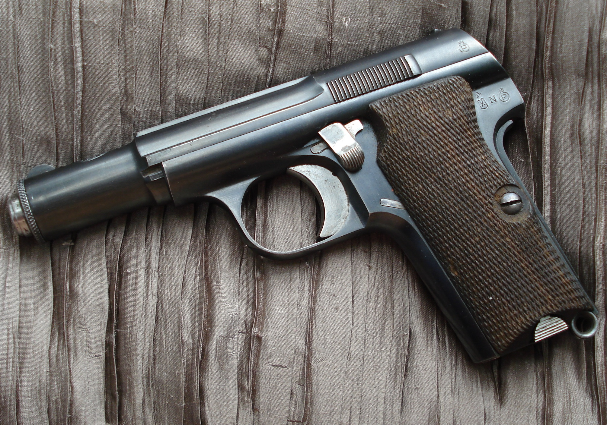 7,65 mm Astra-300 pistol.